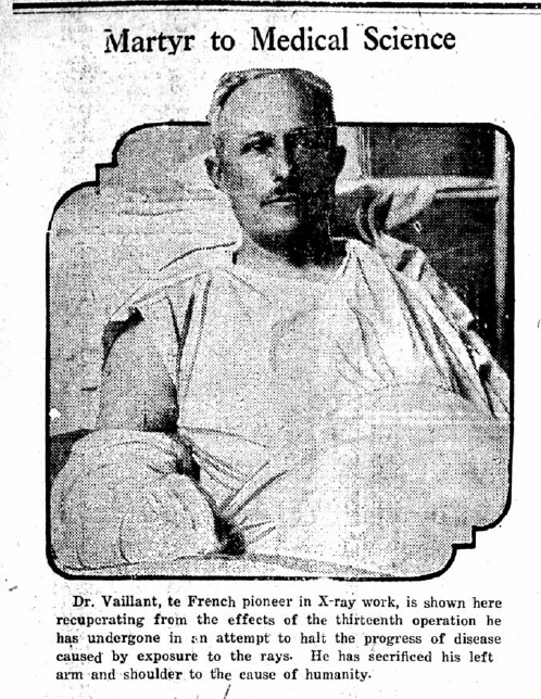 French Xray pioneer Charles Vaillant